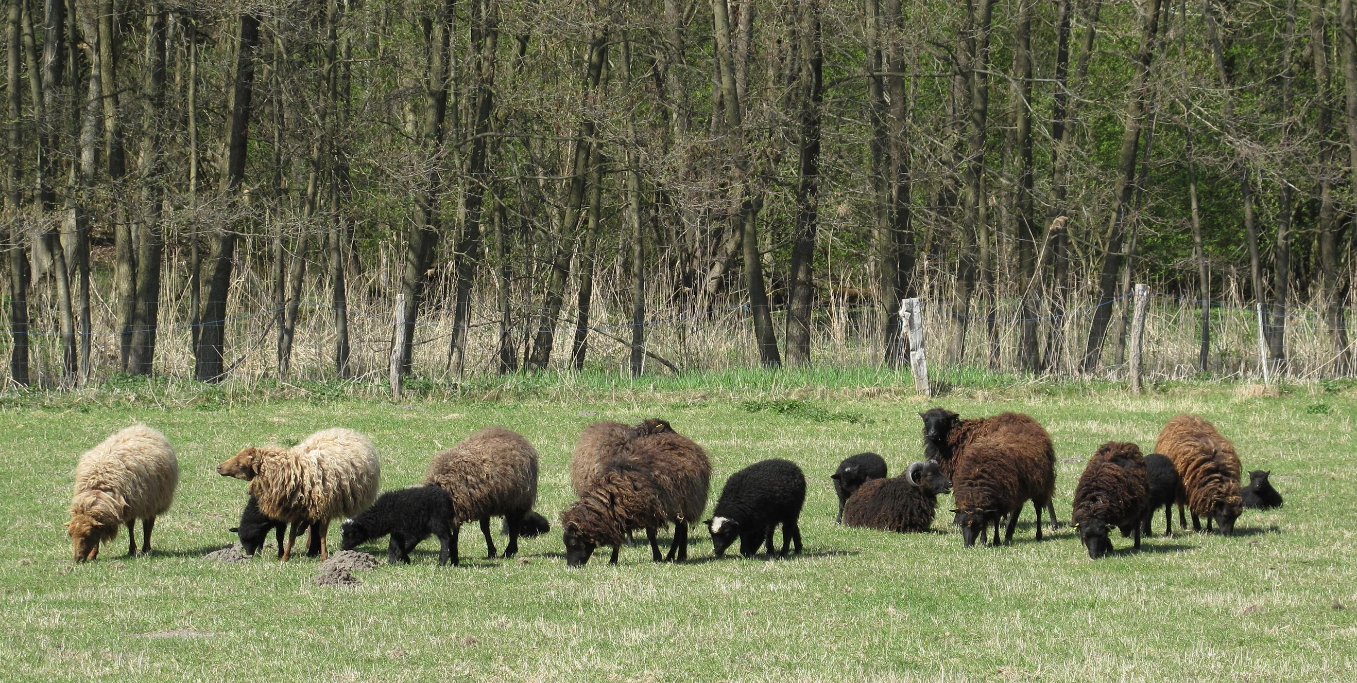 Skudden at the Ortolan-Rundweg (german for: Ortolan bunting circular path) in Stücken. The Skudde is an old domestic sheep breed. Stücken is a part of Michendorf in the district Potsdam-Mittelmark, state Brandenburg, Germany. The village is situated in the Nuthe-Nieplitz Nature Park.